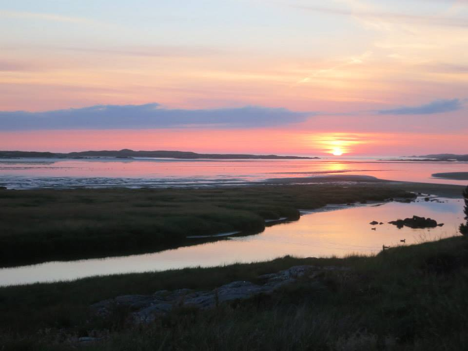 Keadue Strand Sunset